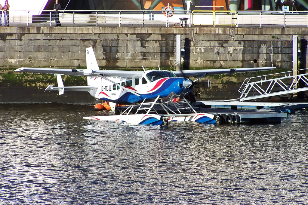 Loch Lomond Seaplanes Cessna 208 Amphibian on the River Clyde in Glasgow